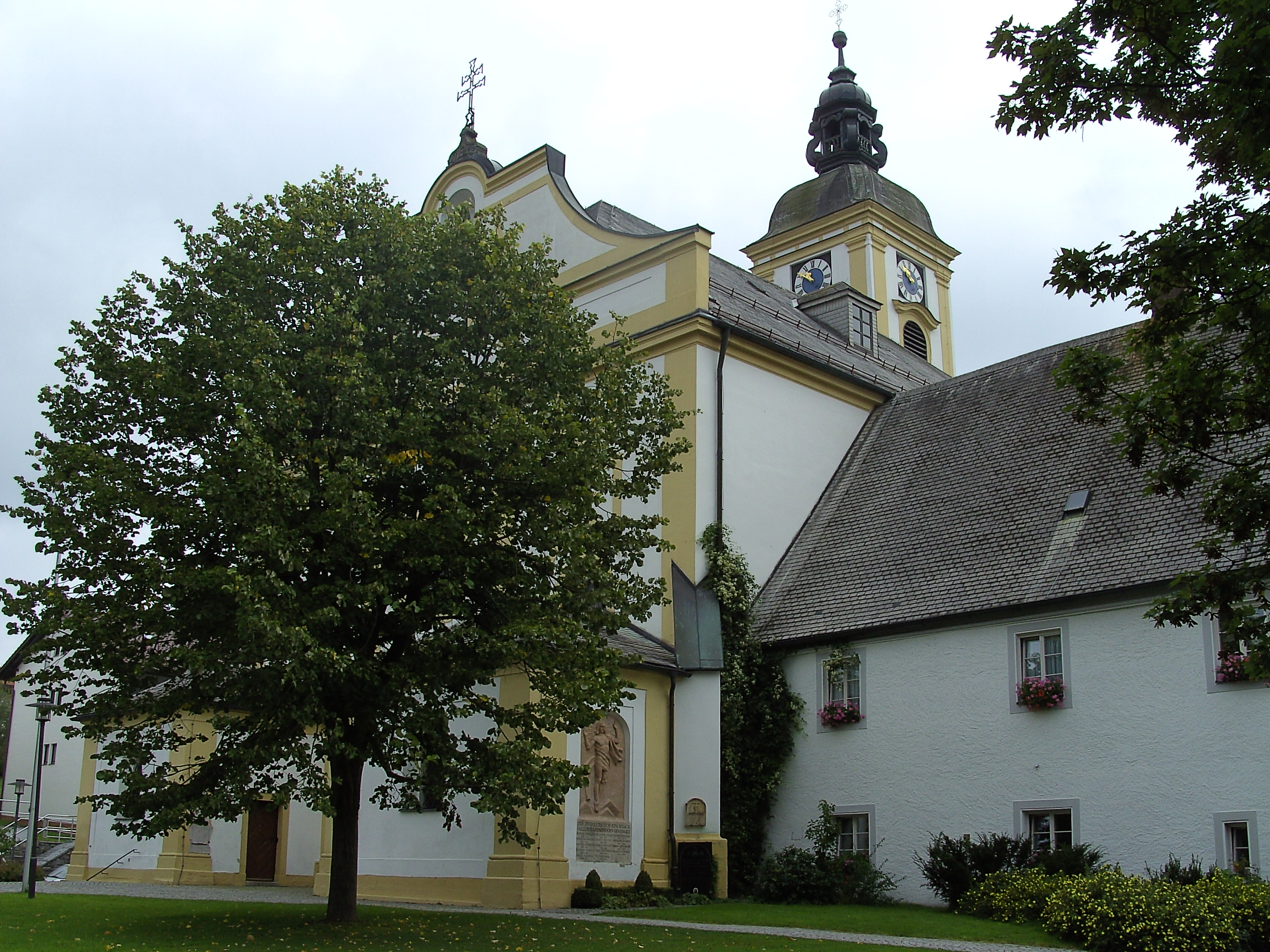 Rinchnach, St John the Baptist Parish Church (church of the former Benedictine provosty) from west.